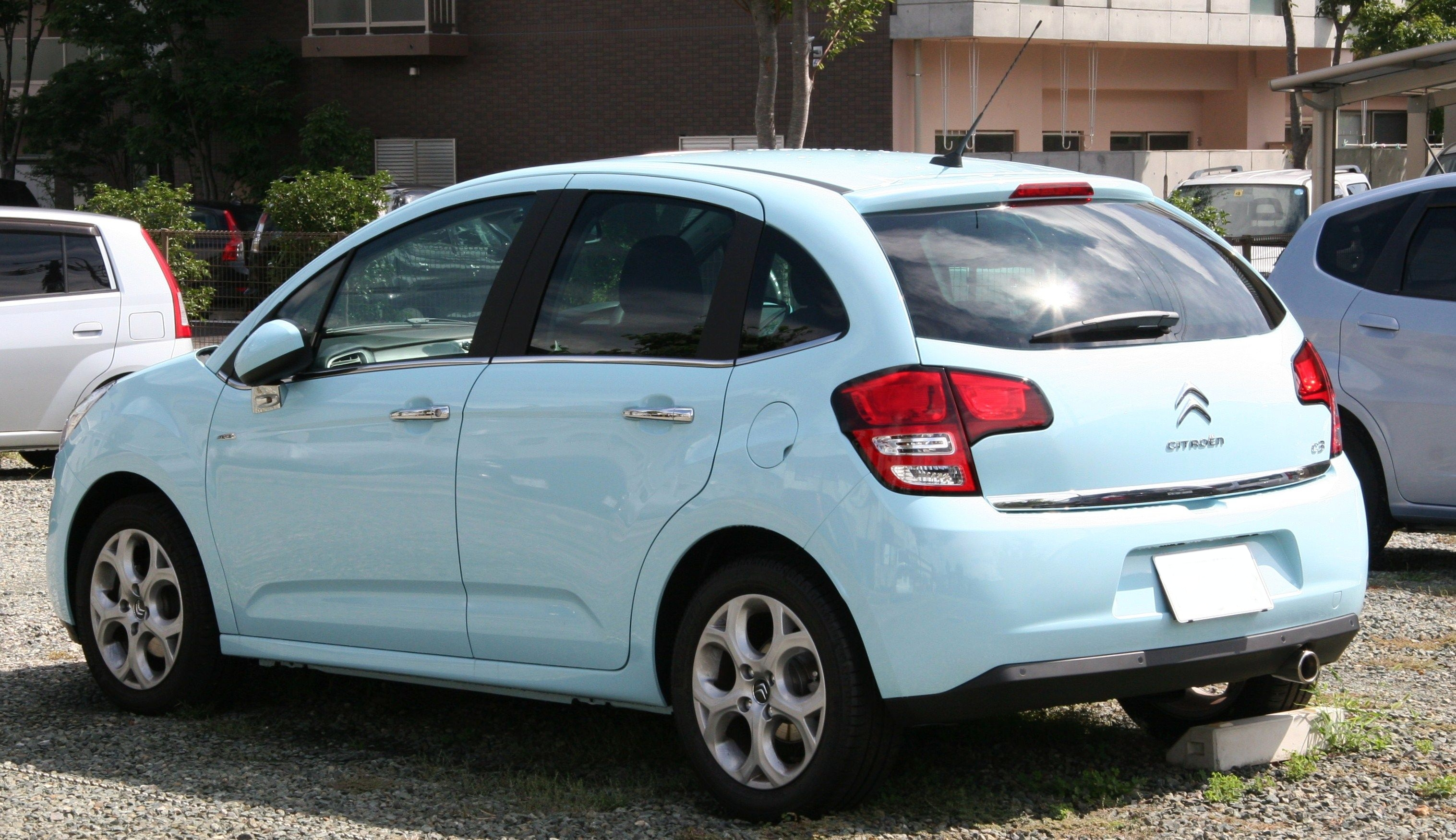 Citroën C3